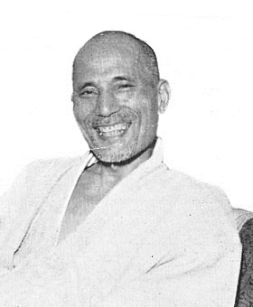 Takashi Hishikari